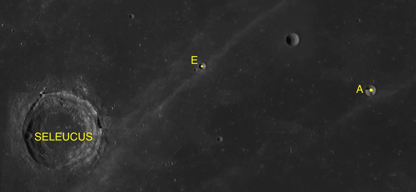 Part of the chart LAC-38 used for the presentation.